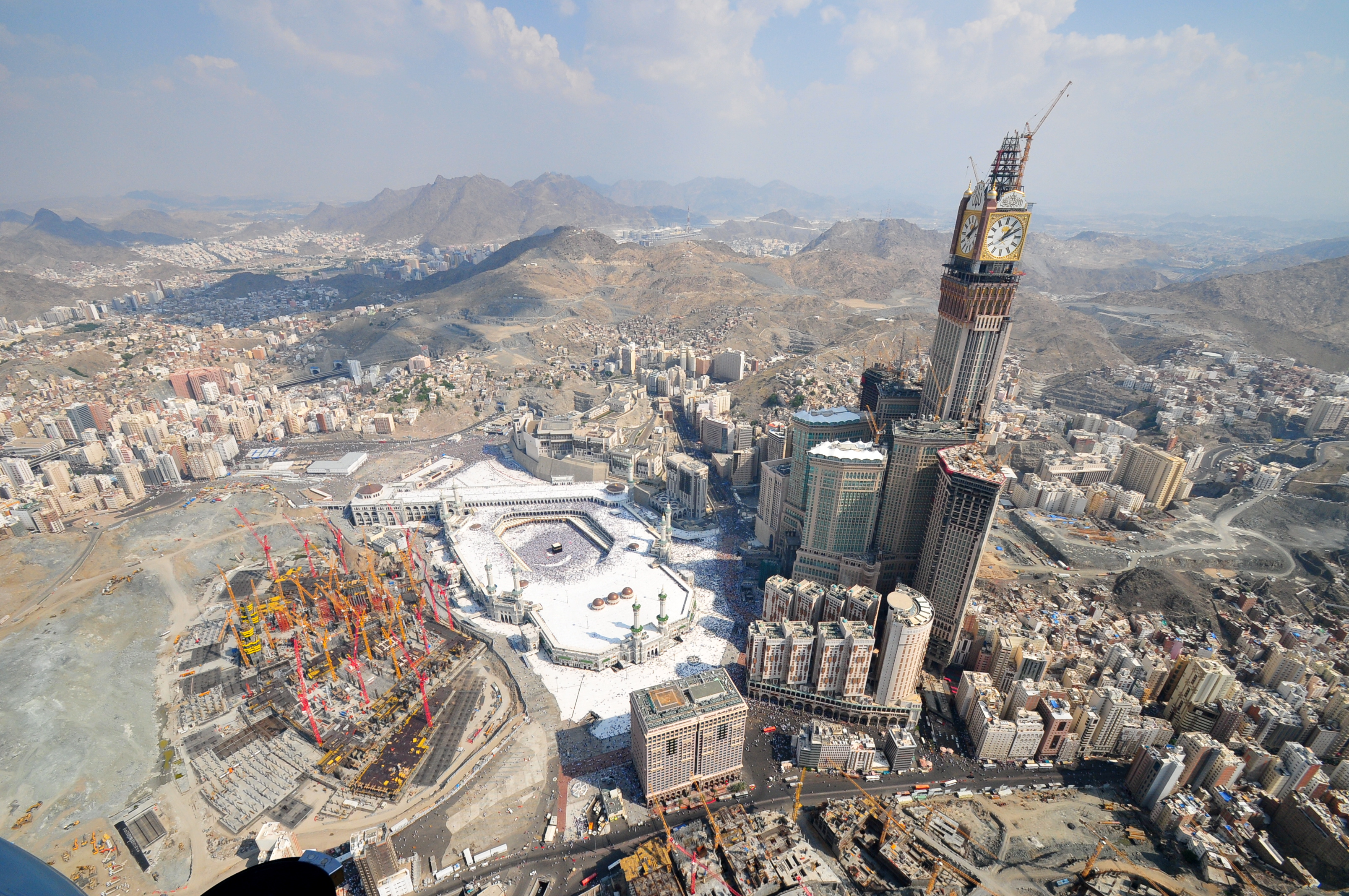 They will make their final circulation of the Kaaba, in what is known as the Farewell Tawaf before heading back to their respective homes across the globe.